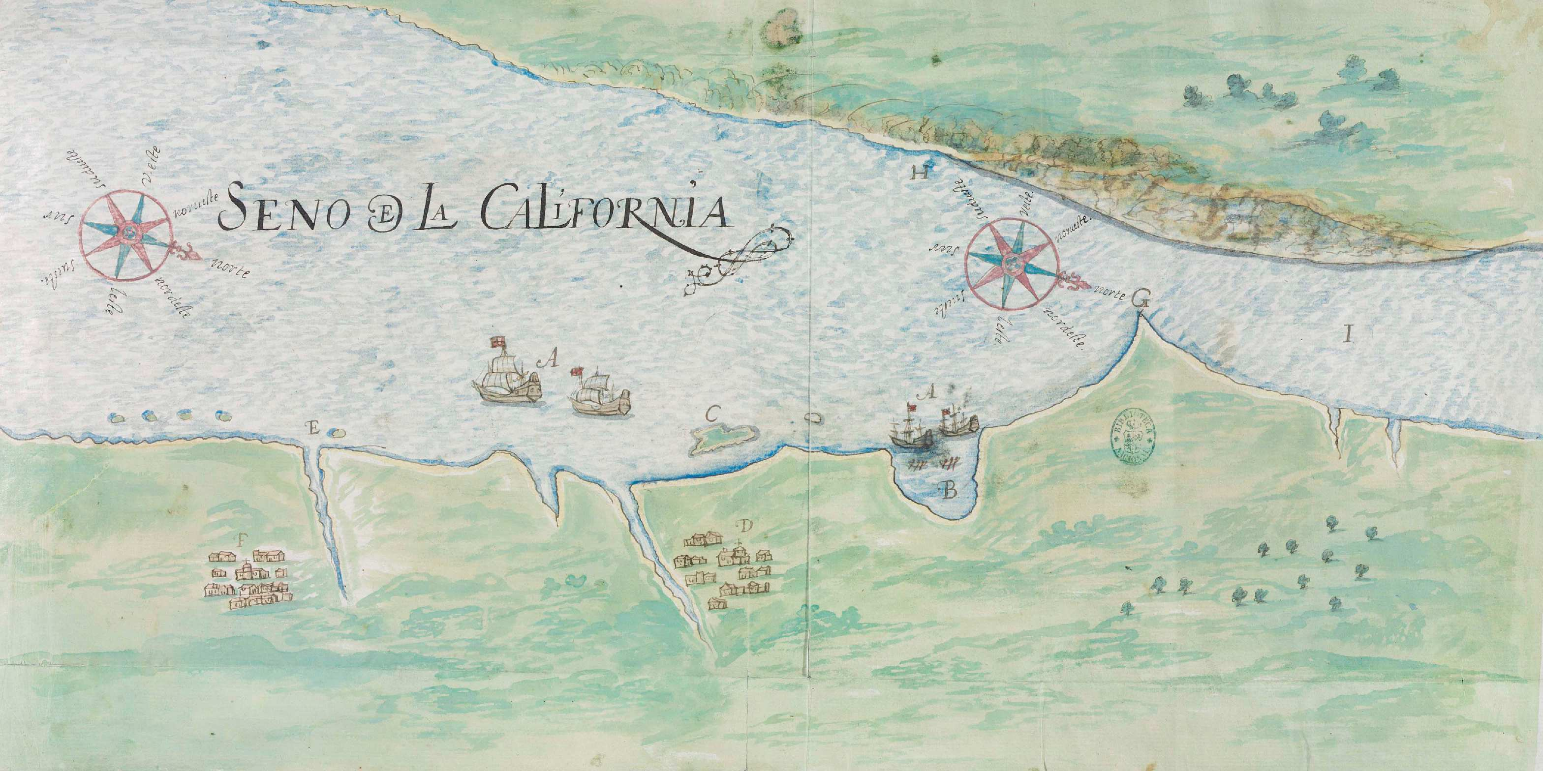 Map of the Gulf of California drawn by Nicolás de Cardona after his exploration trip. Last map (page 179) of the Descripciones geográphicas e hydrográphicas de muchas tierras y mares del Norte y Sur en las Indias, en especial del descubrimiento del Reino de la California (Geographic and hydrographic descriptions of many northern and southern lands and seas in the Indies, specifically the discovery of the kingdom of California), written by captain Nicolás de Cardona after his expedition of 1614. Removed watermark: © Biblioteca Nacional de España